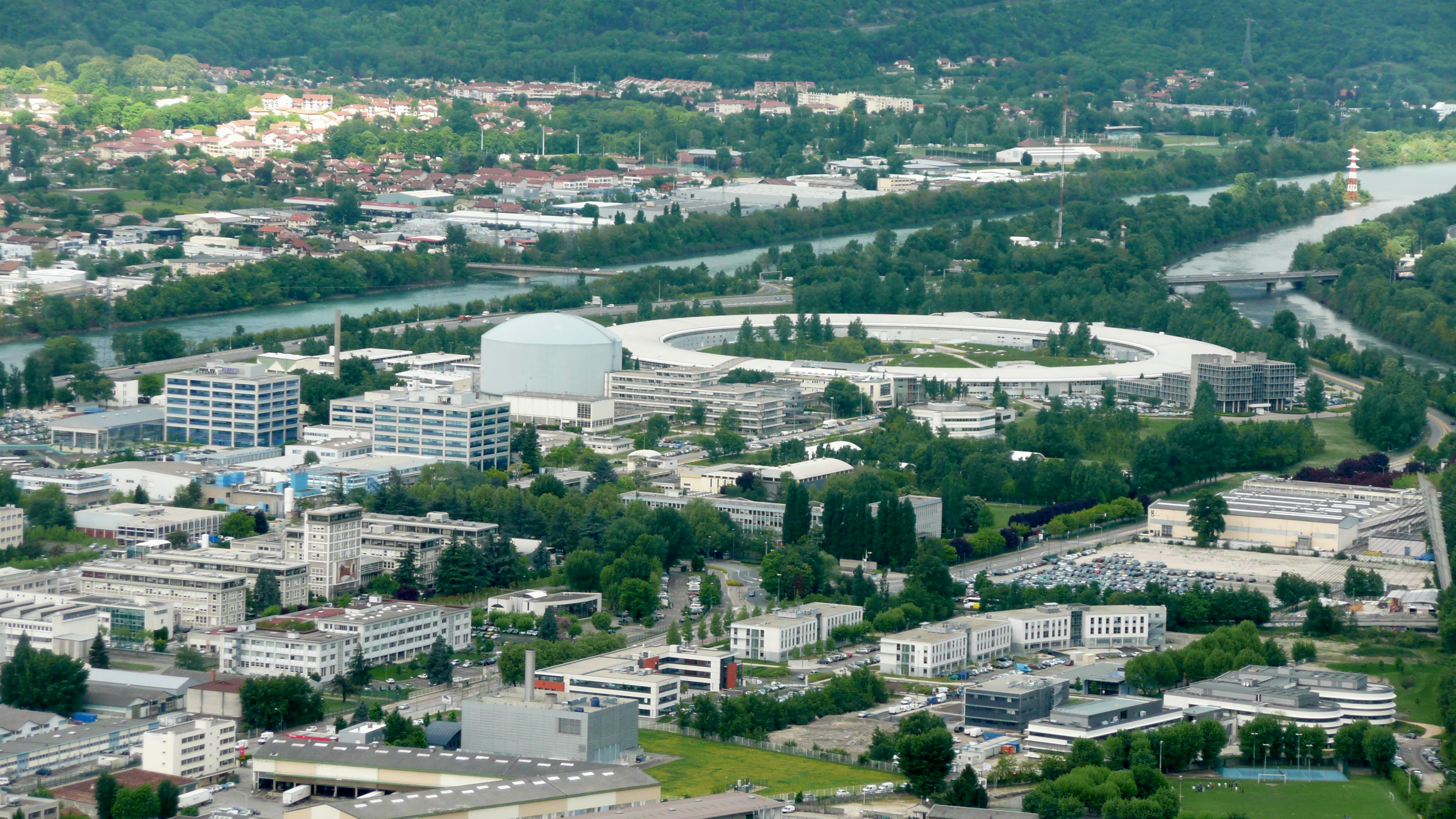 European Research Centre in Grenoble